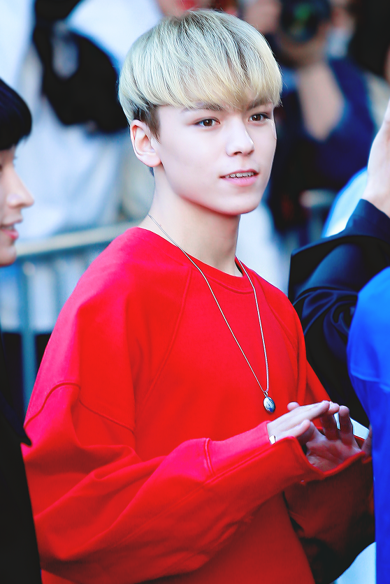 Vernon Chwe going to a Music Bank recording on May 26, 2017.조선말: 170526 뮤직뱅크 출근길